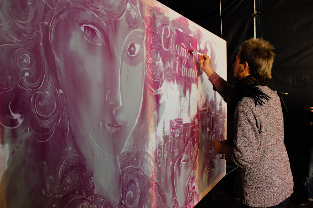 Створення картини вином